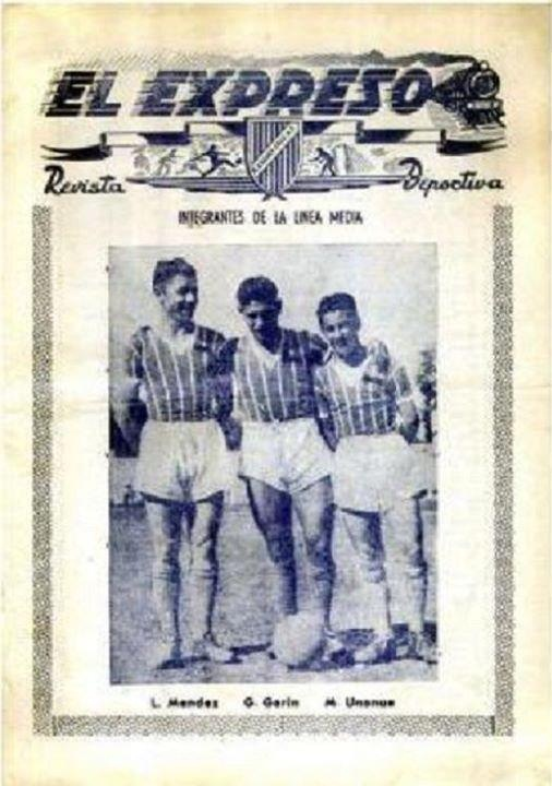 Cover to El Expreso magazine with Godoy Cruz players Méndez, Artal and Unanúa, that formed the midfield line by then.